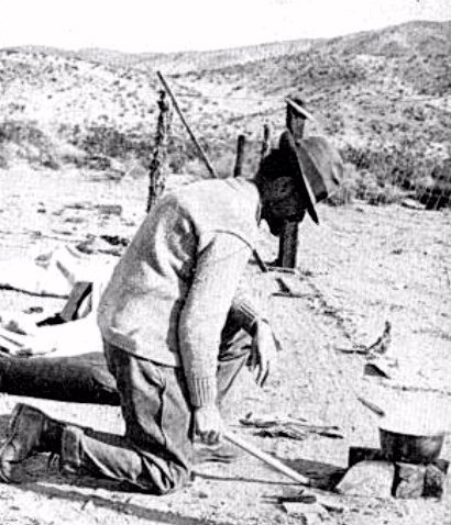 Joseph Grinnell in the field at camp, Mojave Desert, California US.